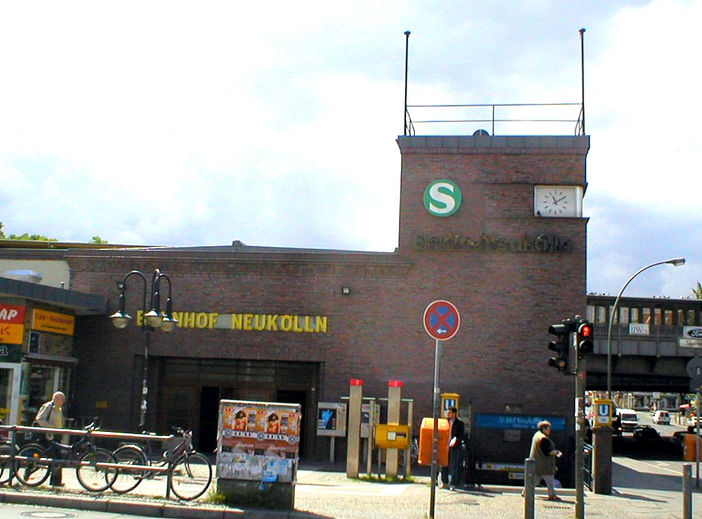 The entrance building to the U-Bahn and S-Bahn station Neukölln in Berlin